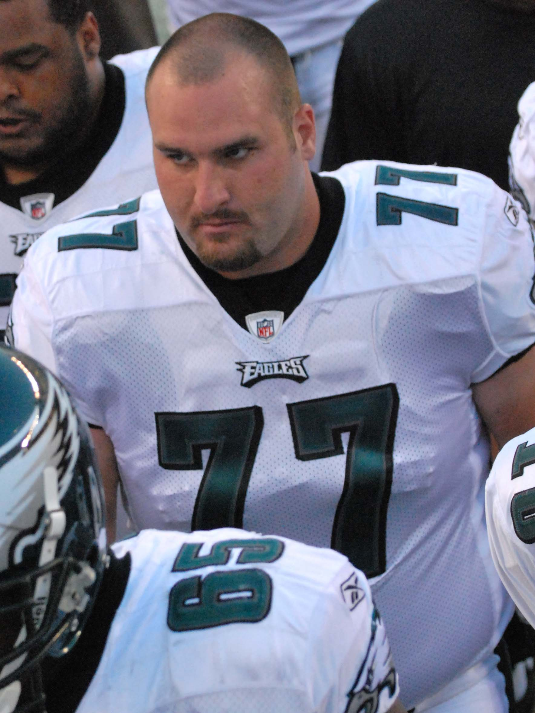 Philadelphia Eagles offensive lineman Mike McGlynn during a preseason game against the Jacksonville Jaguars in August 2009.